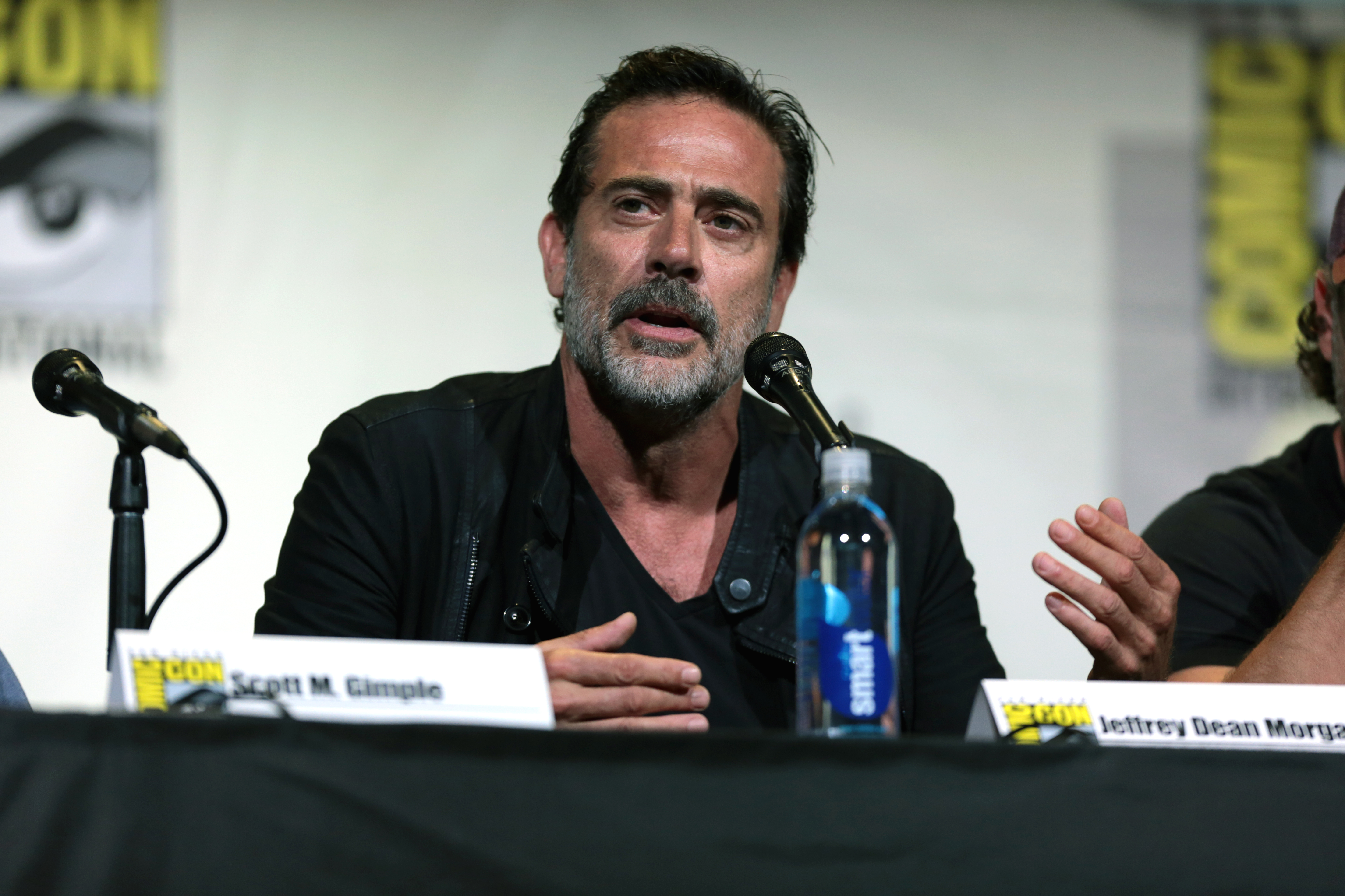 Jeffrey Dean Morgan speaking at the 2016 San Diego Comic Con International, for "The Walking Dead", at the San Diego Convention Center in San Diego, California.